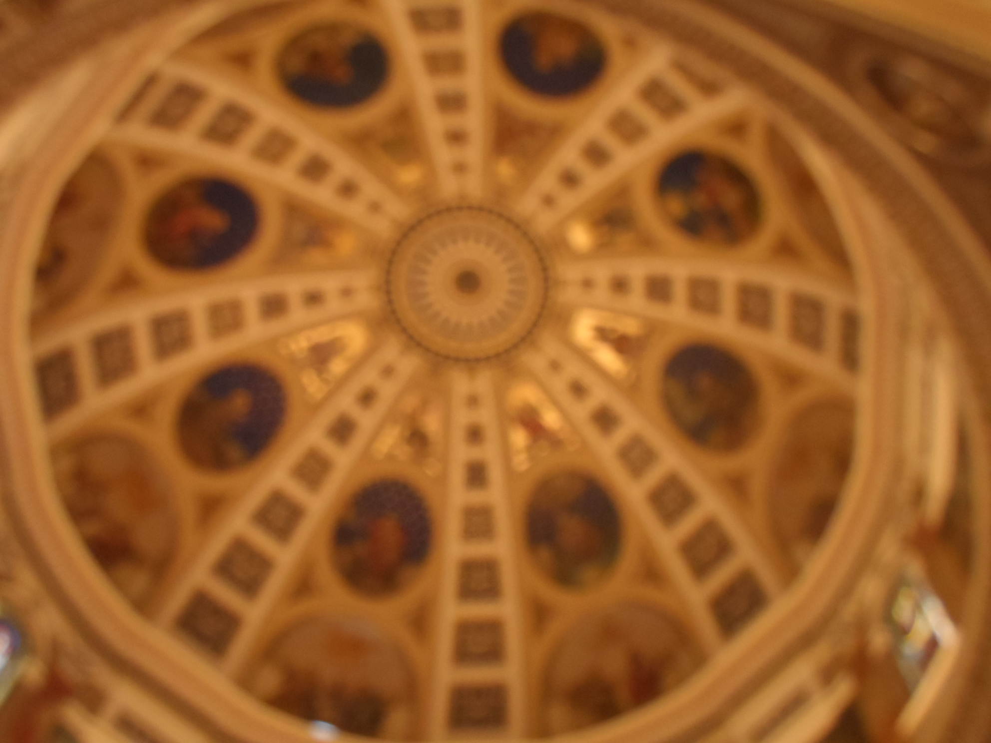 St. Josaphat Basilica, 601 W. Lincoln Ave.